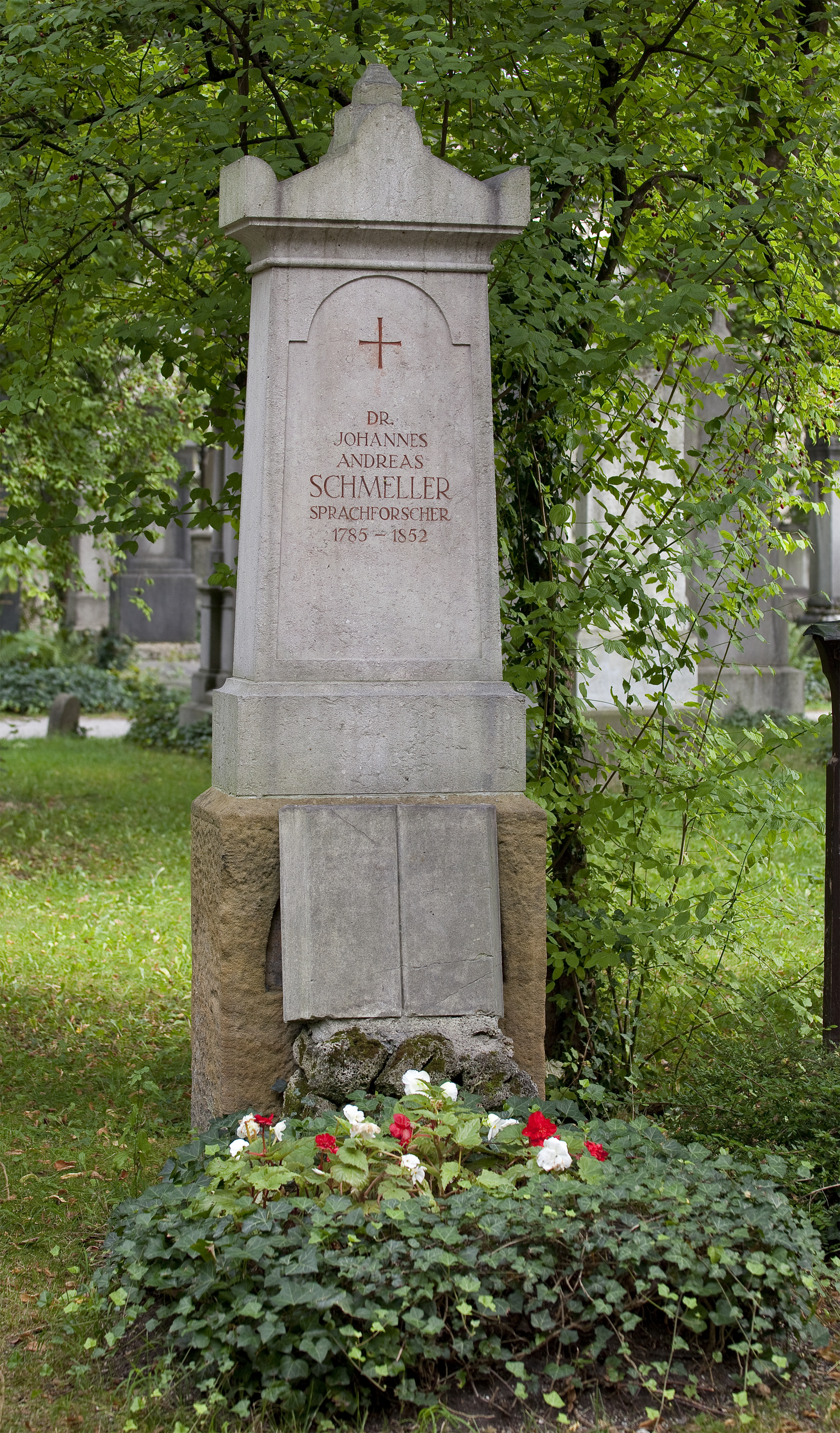 Johann Andreas Schmellers Grab im alten Südlichen Friedhof in München